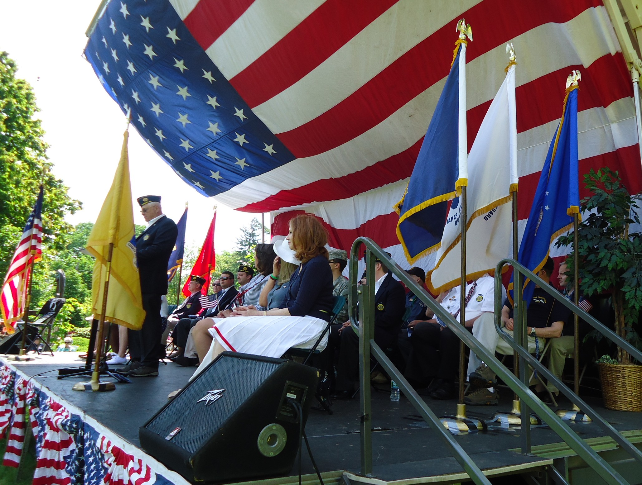 Summit, NJ, Memorial Day celebration. Photo of grandstand.